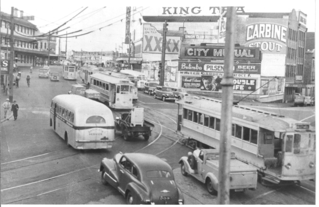 Description: Corner of Adelaide and Queen Streets, Brisbane, with trams and other traffic. Date created: 1947